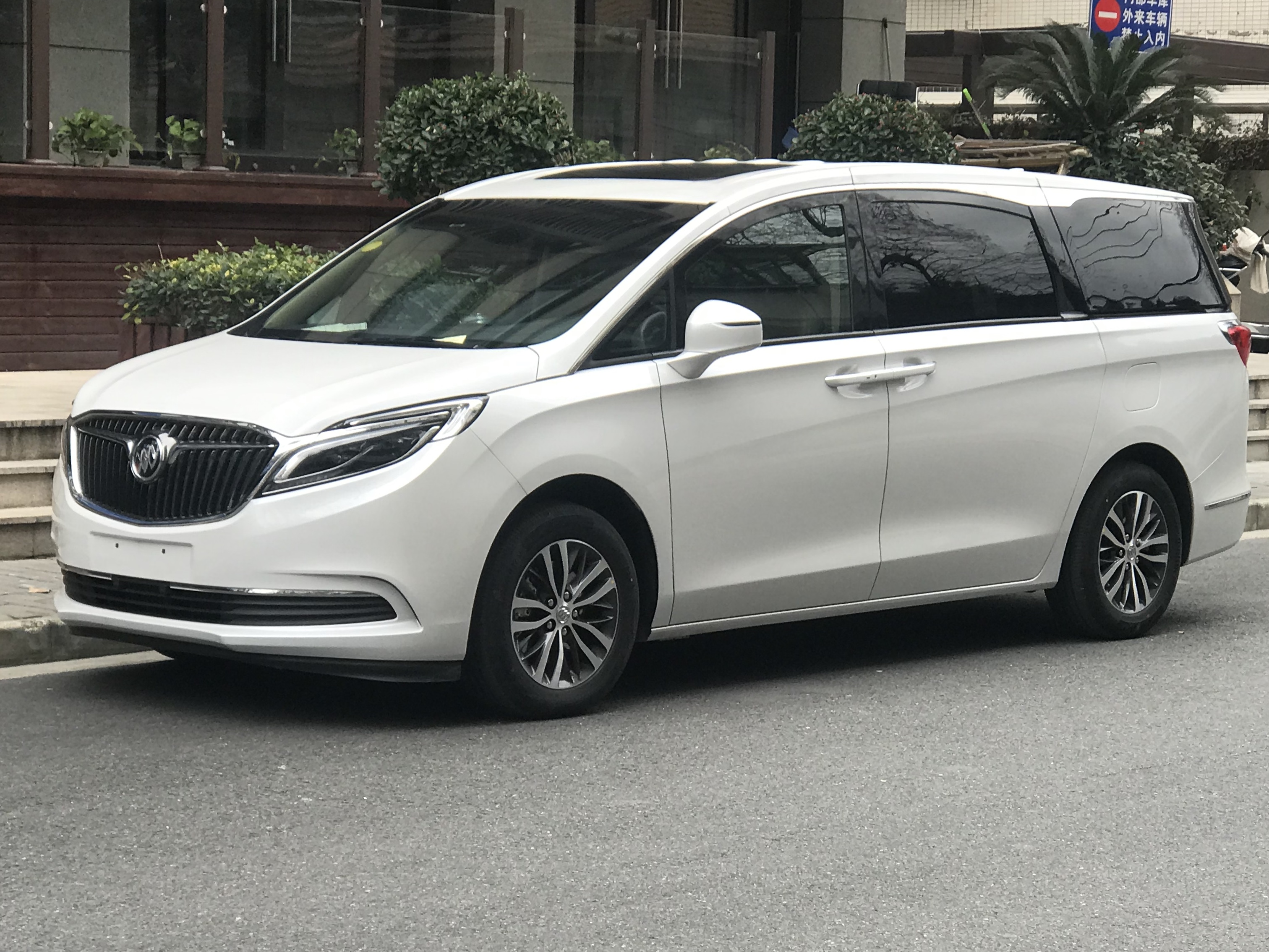 Buick GL8 third generation front